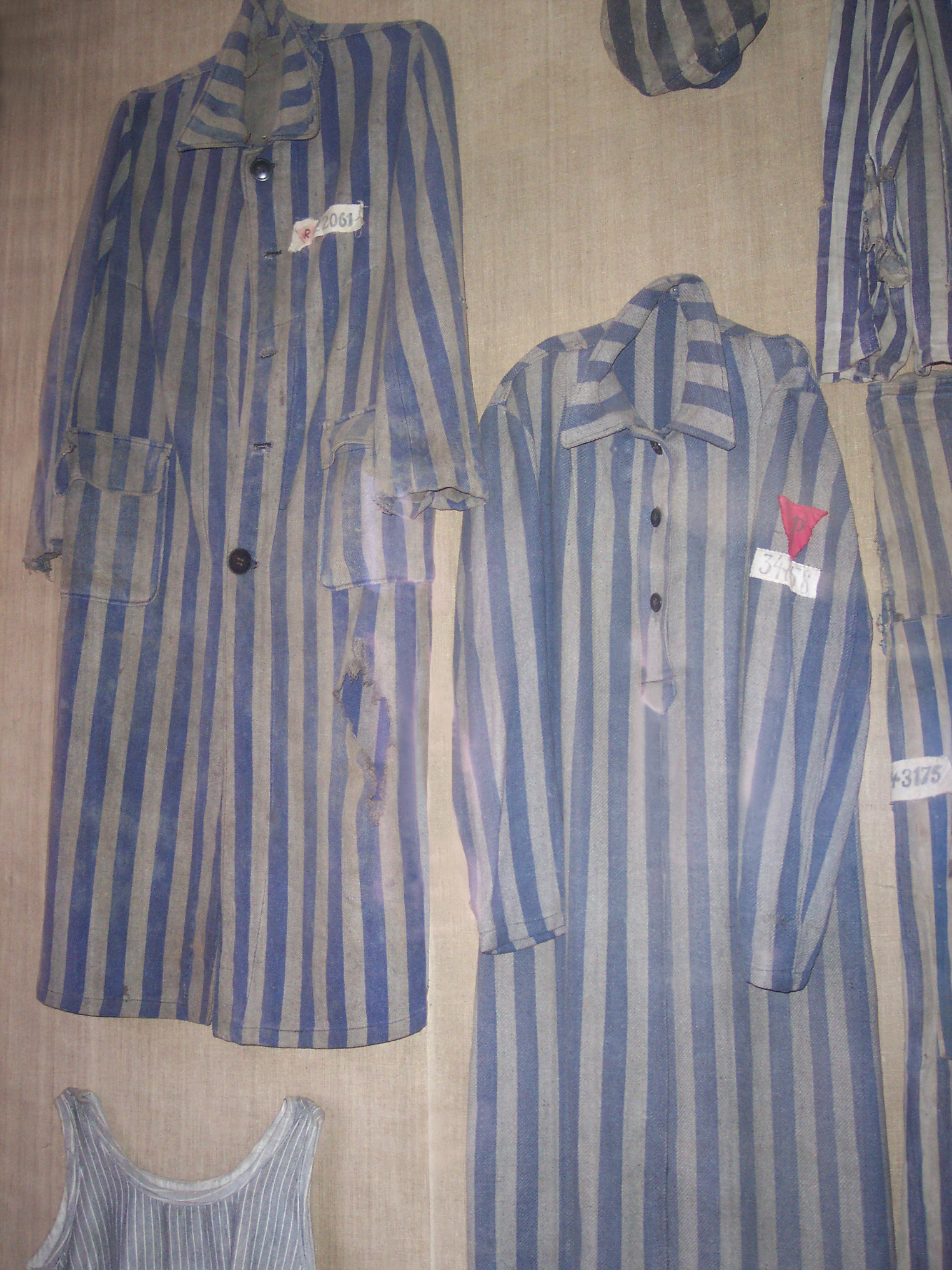 Exhibition Material Proofs of Crimes at Auschwitz I